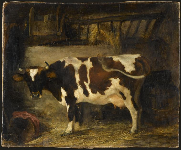 Cow in a Stable